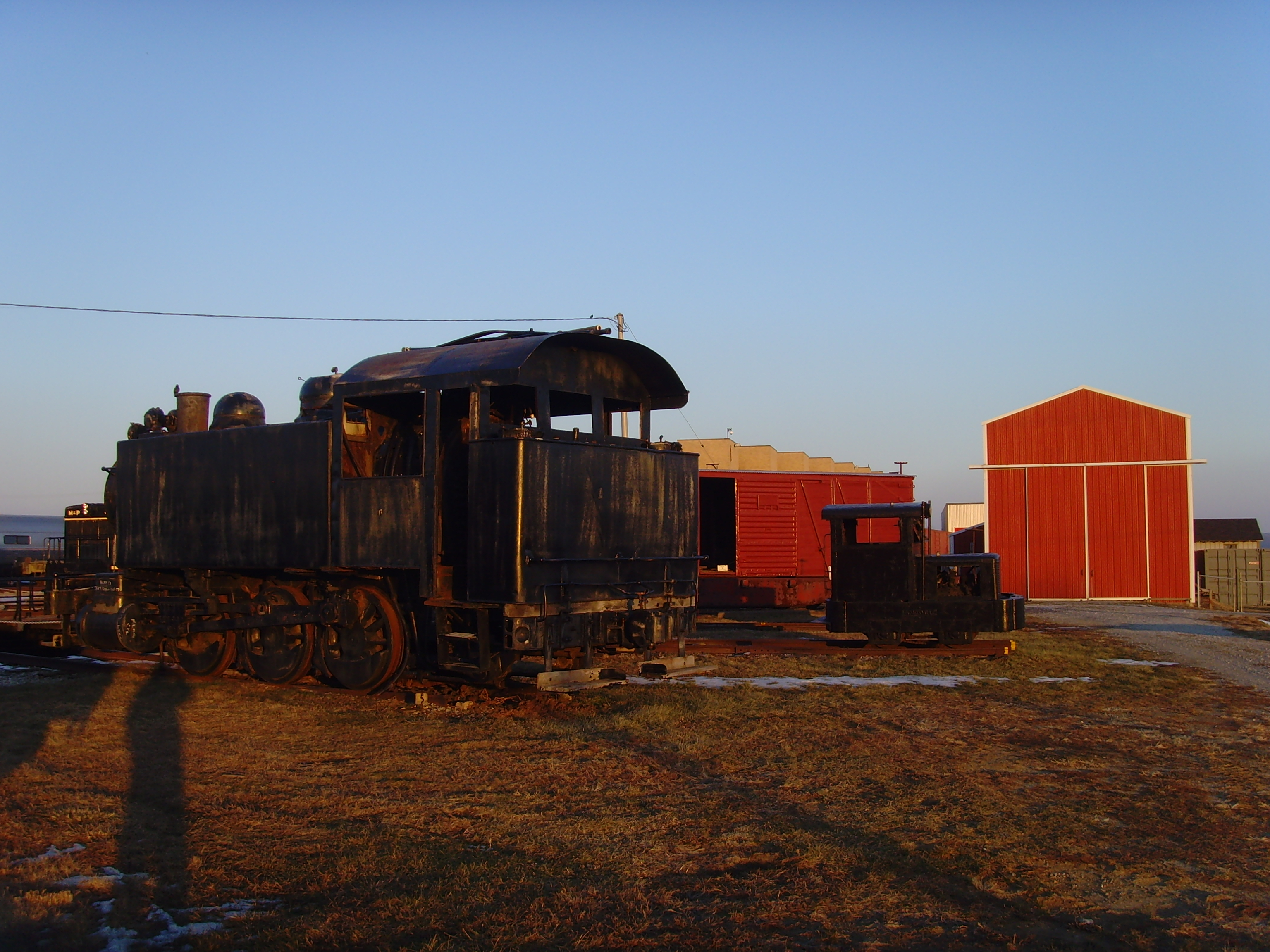 0397 Strasburg - Railroad Museum of Pennsylvania